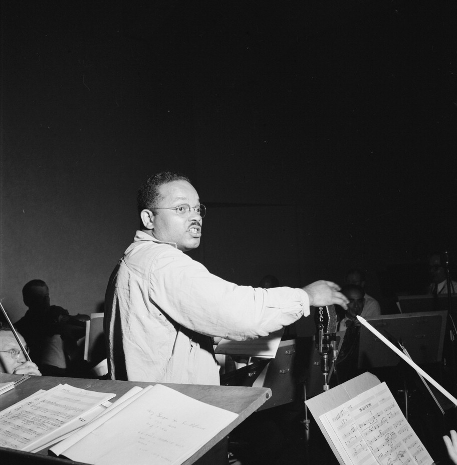 Sy Oliver, New York, N.Y., ca. September 1946 (Photograph by William P. Gottlieb)